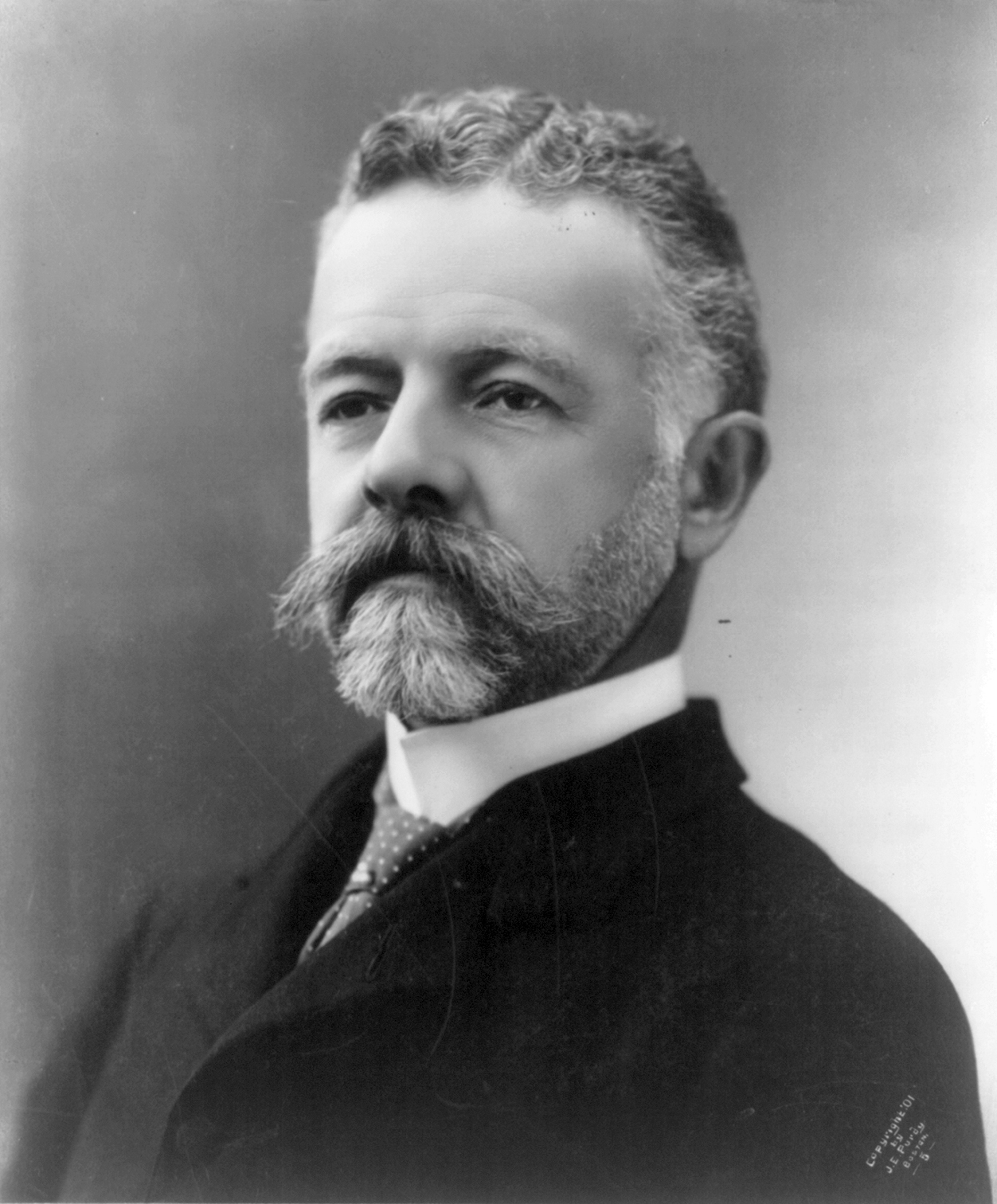 Henry Cabot Lodge, bust portrait, facing slightly left